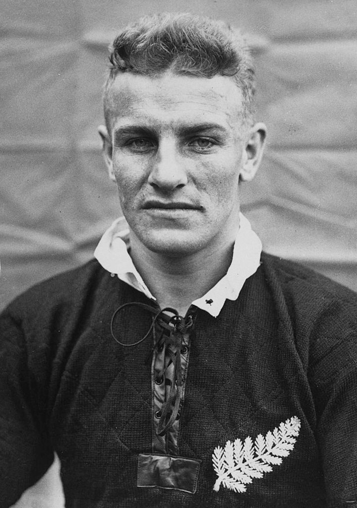 September 1924: A E Cooke from Auckland, a member of the new Zealand Rugby team.